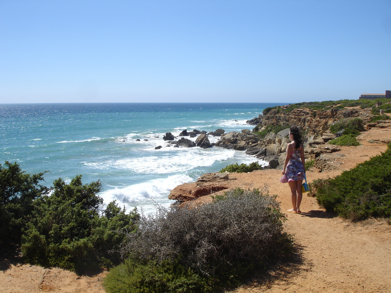 Cliffs in Roche. Conil de la Frontera, Andalusia (Spain)